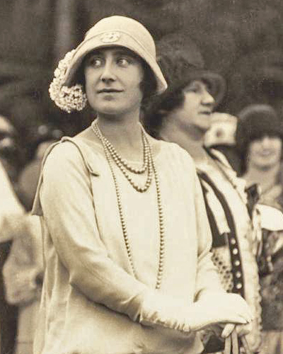 In 1927 the Duke and Duchess of York (later to become King George VI and Queen Elizabeth) visited Australia and were in Brisbane for several days. This photograph was taken by Henry Mobsby, then Queensland Government photographer. Source: Mobsby Collection, Fryer Library, Brisbane, Australia.